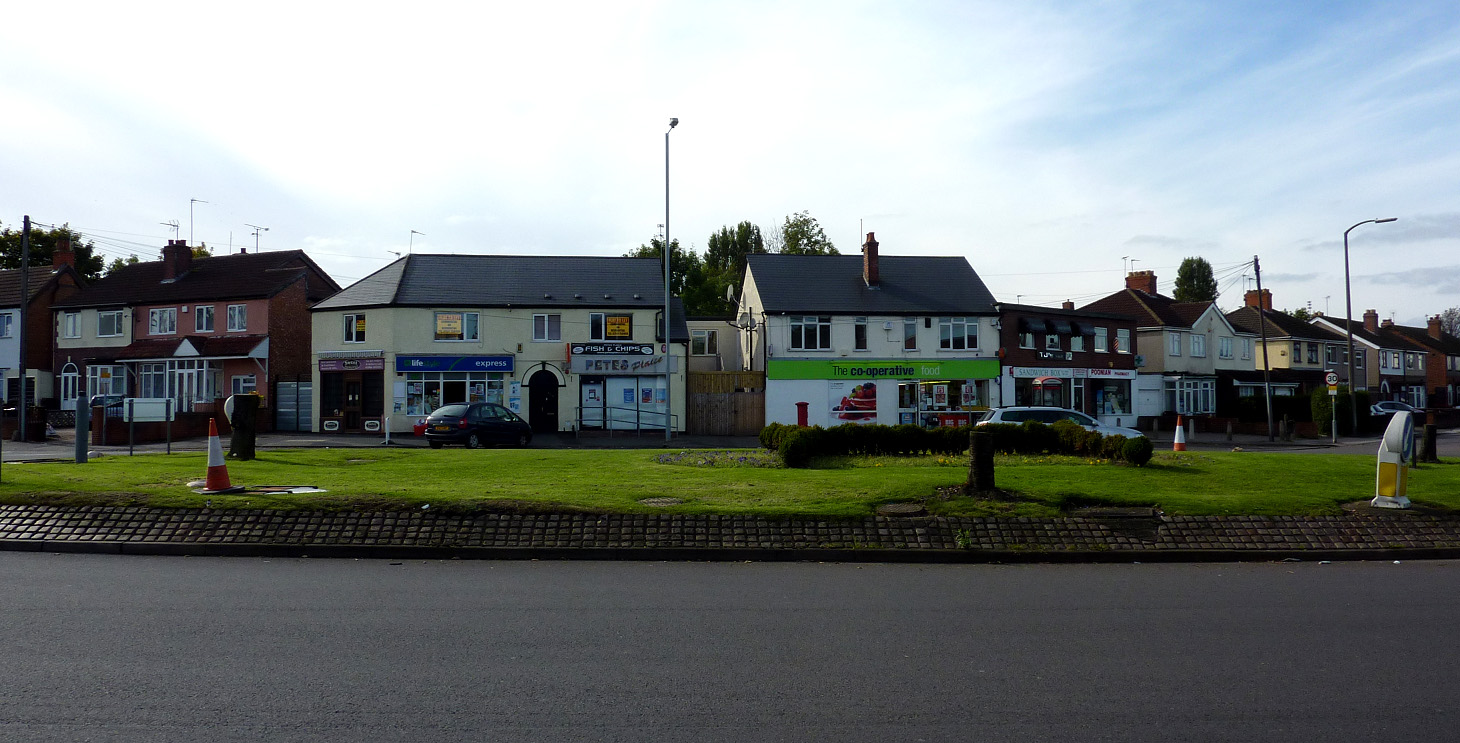 A photograph of the Wobaston settlement on Vine Island, Stafford Road and Wobaston Road within the modern area of Fordhouses, Wolverhampton. Photograph taken from the former position of the Vine Inn, now a modern apartment complex.